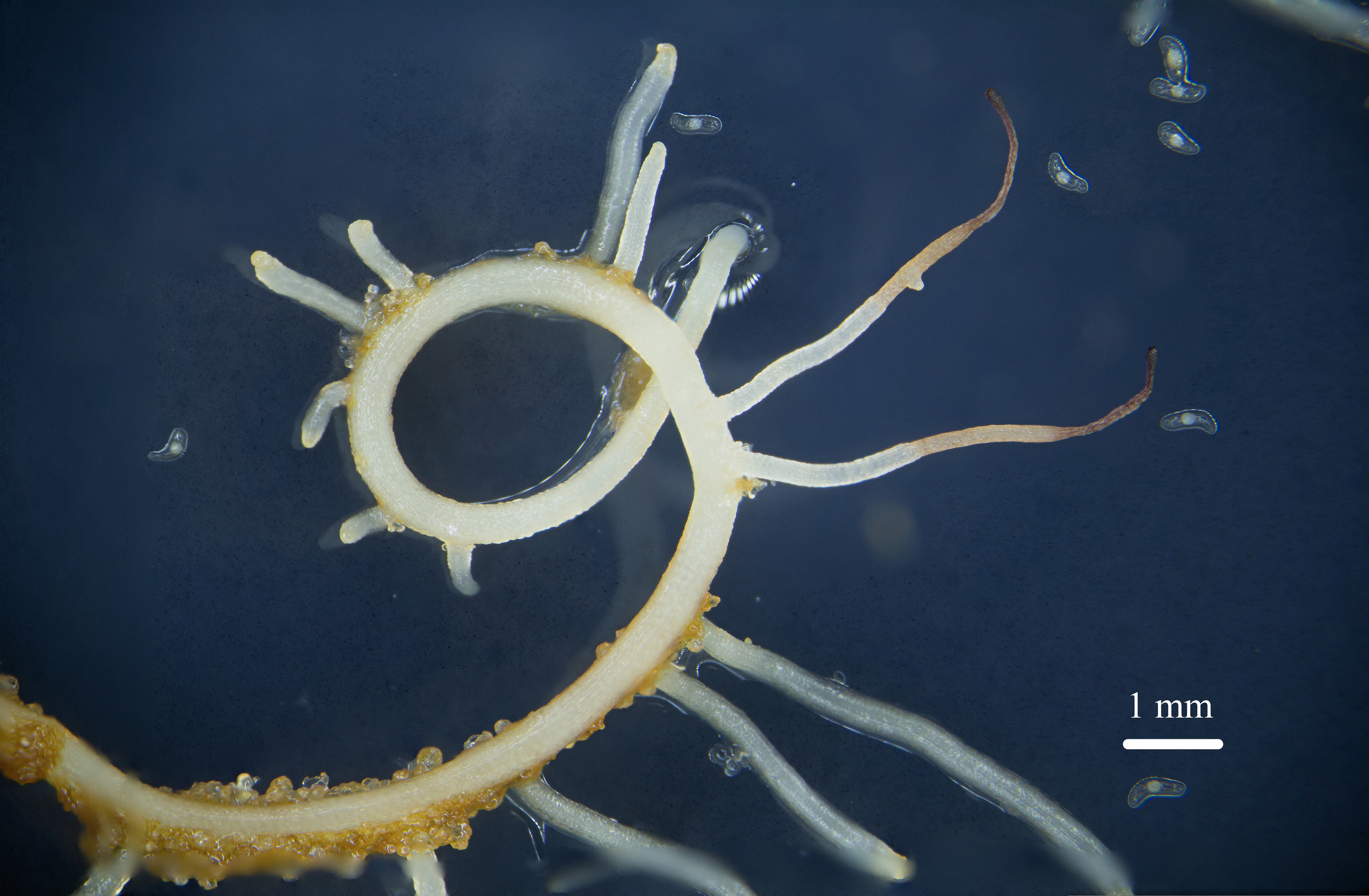 Young root of Orthilia secunda.